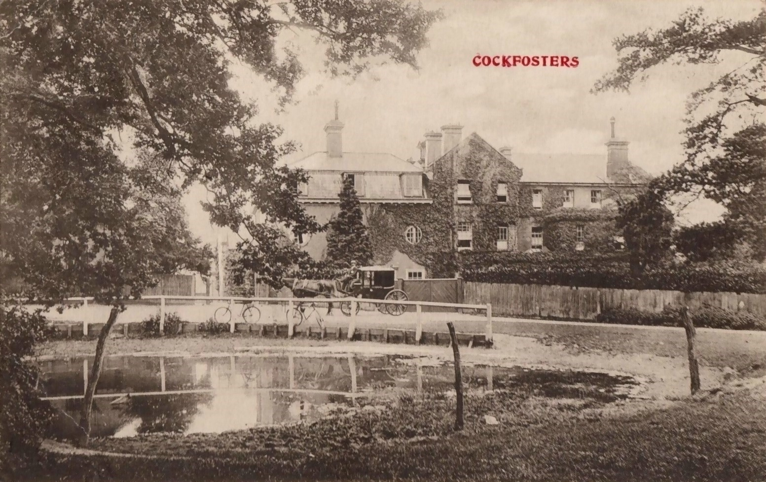 Ludgrove Hall, Cockfosters. Cowing's Series card.